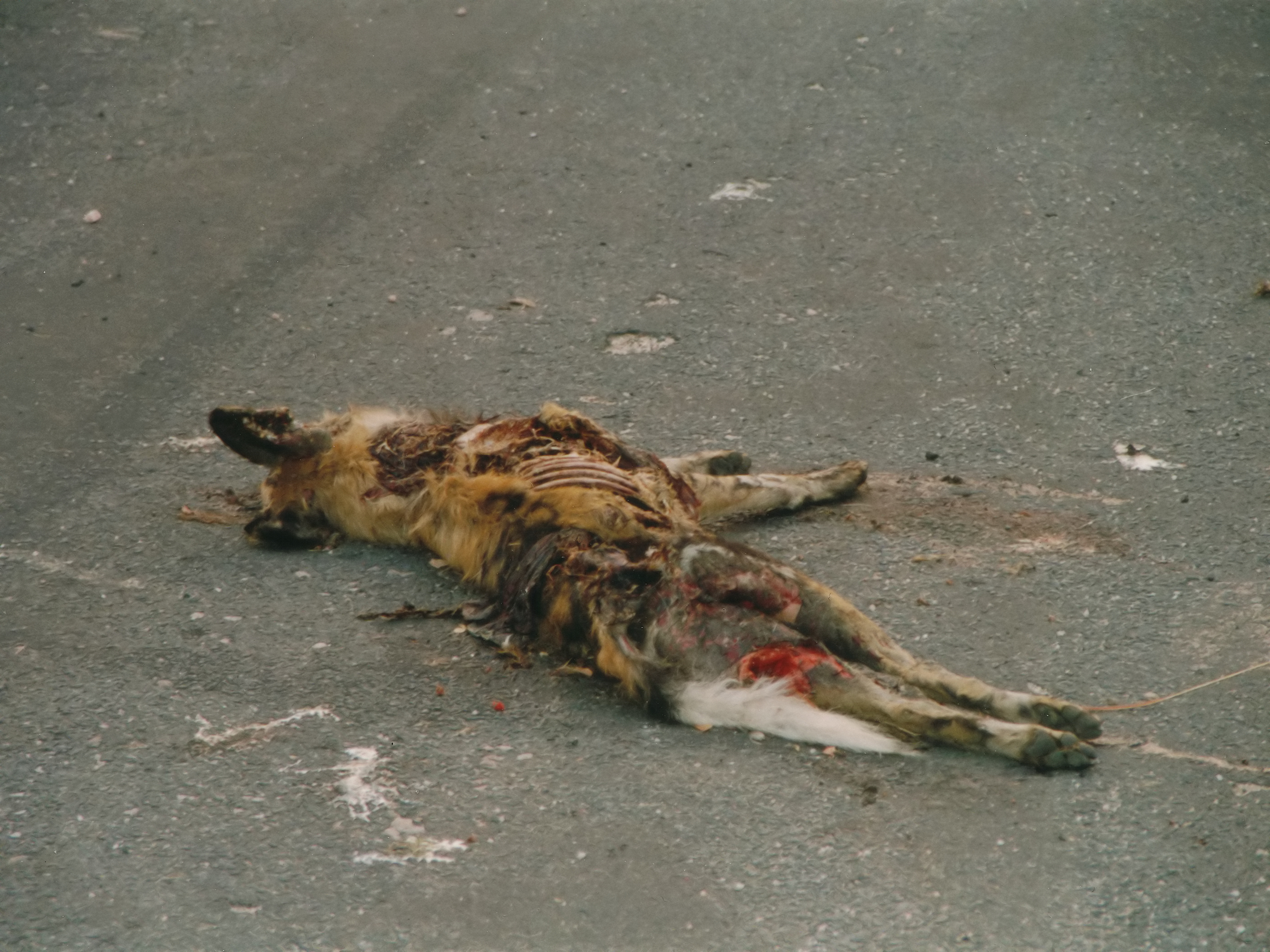 A roadkill of an African wild dog, somewhere along Great East Road between Kacholola and Nyimba , Zambia.Scanned from photograph